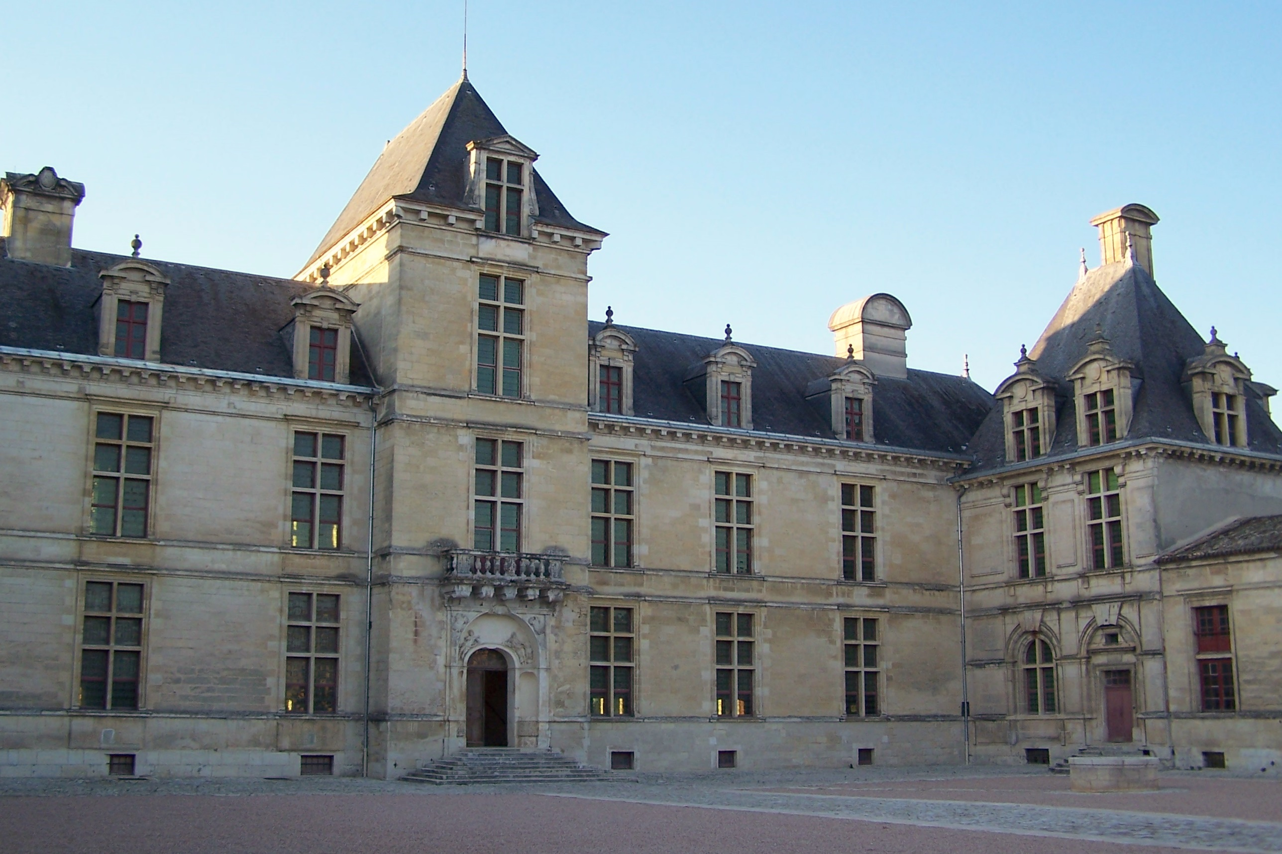 Castle of Cadillac (Gironde, France)